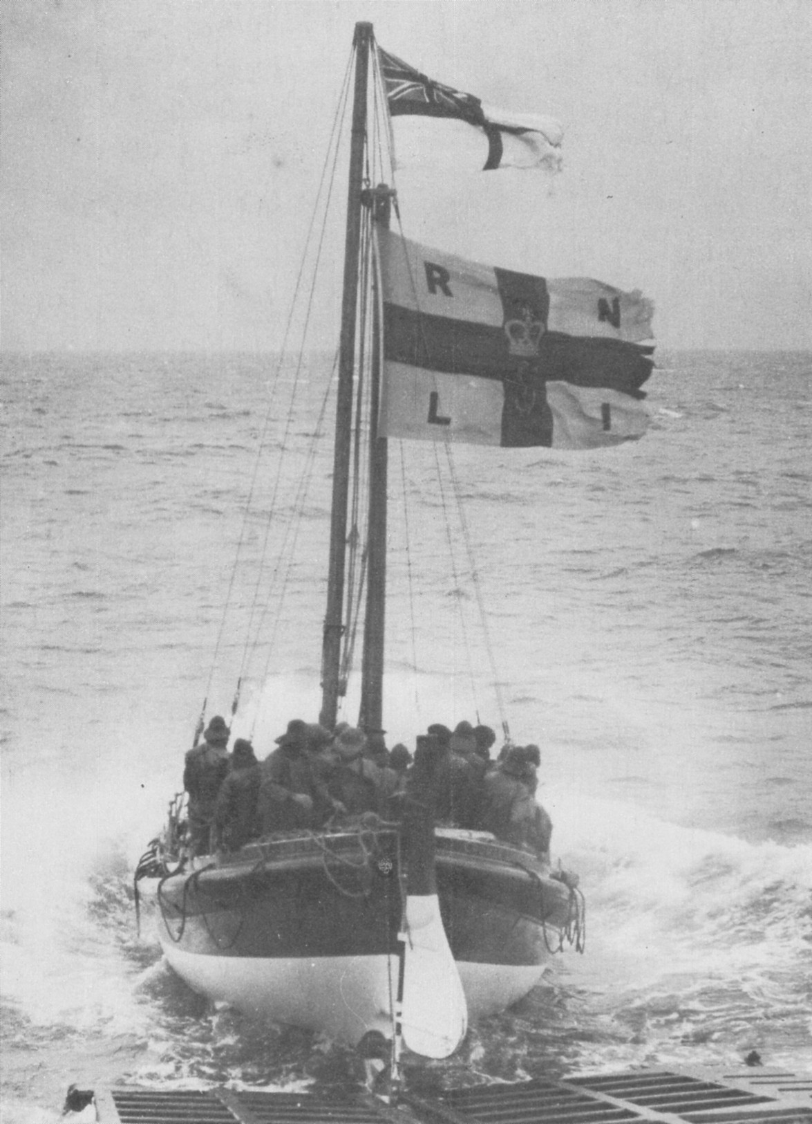 Post card image of the Cromer Lifeboat HF Bailey ON670